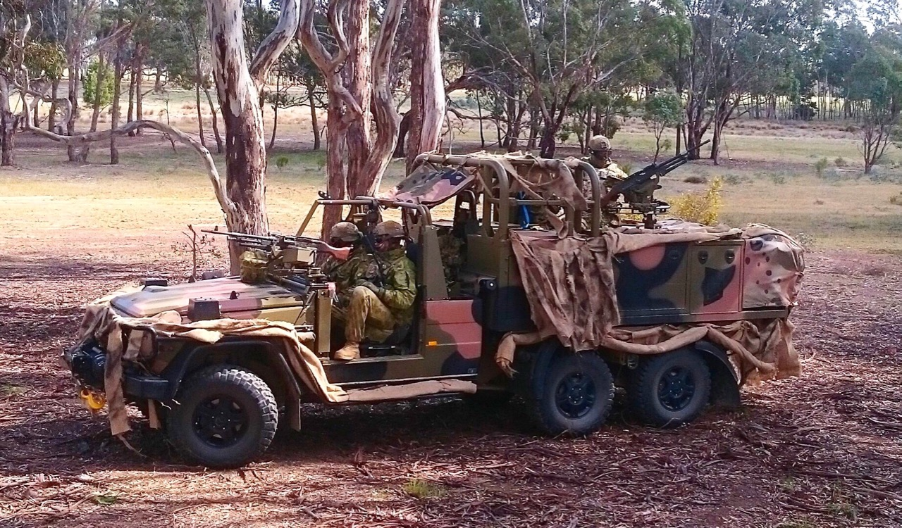 A G-Wagon out on patrol with the 4/19 PWLH